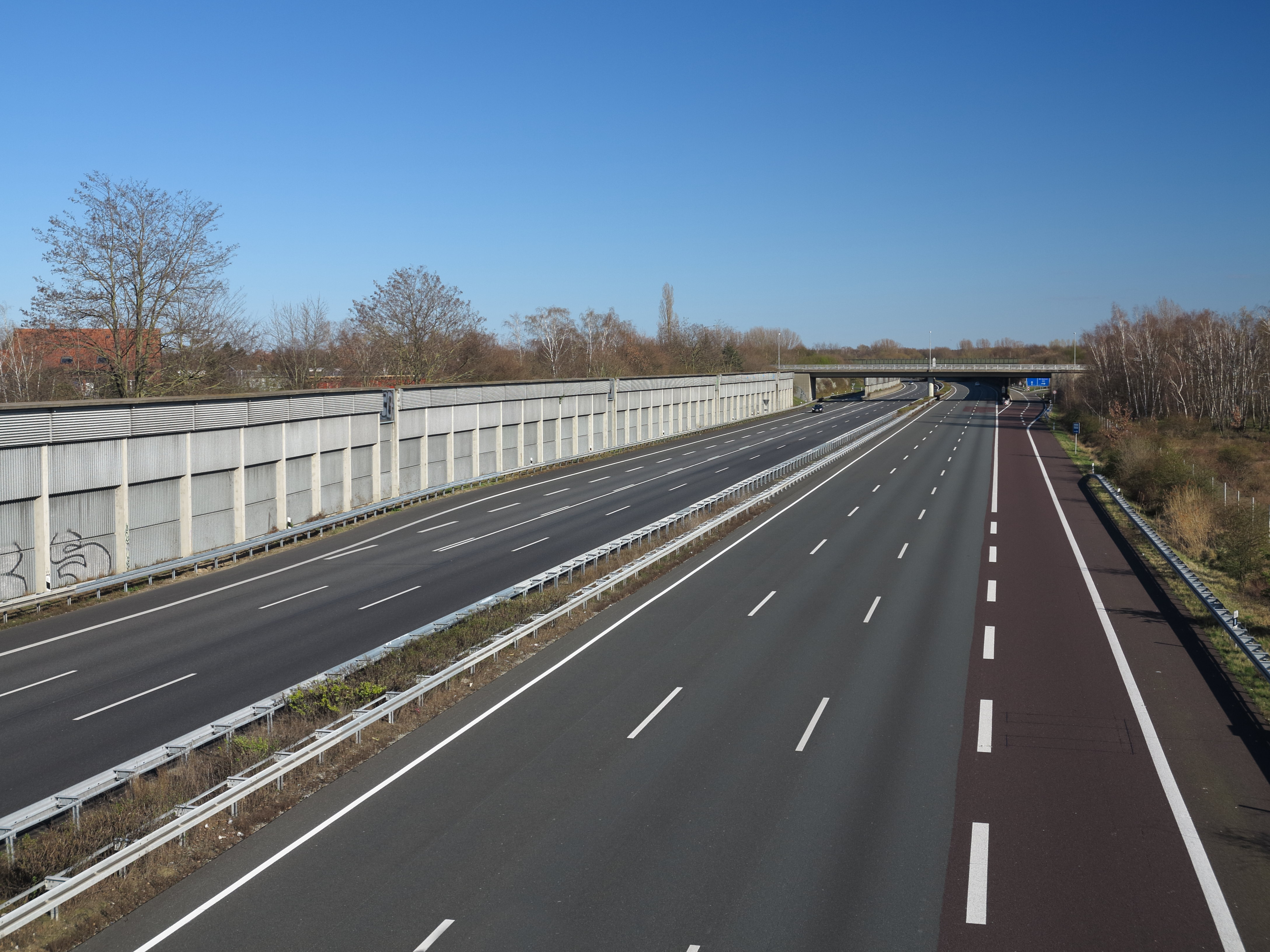 Due to the COVID 19 pandemic, the otherwise busy Autobahn 2 near Brunswick, Germany is almost empty.